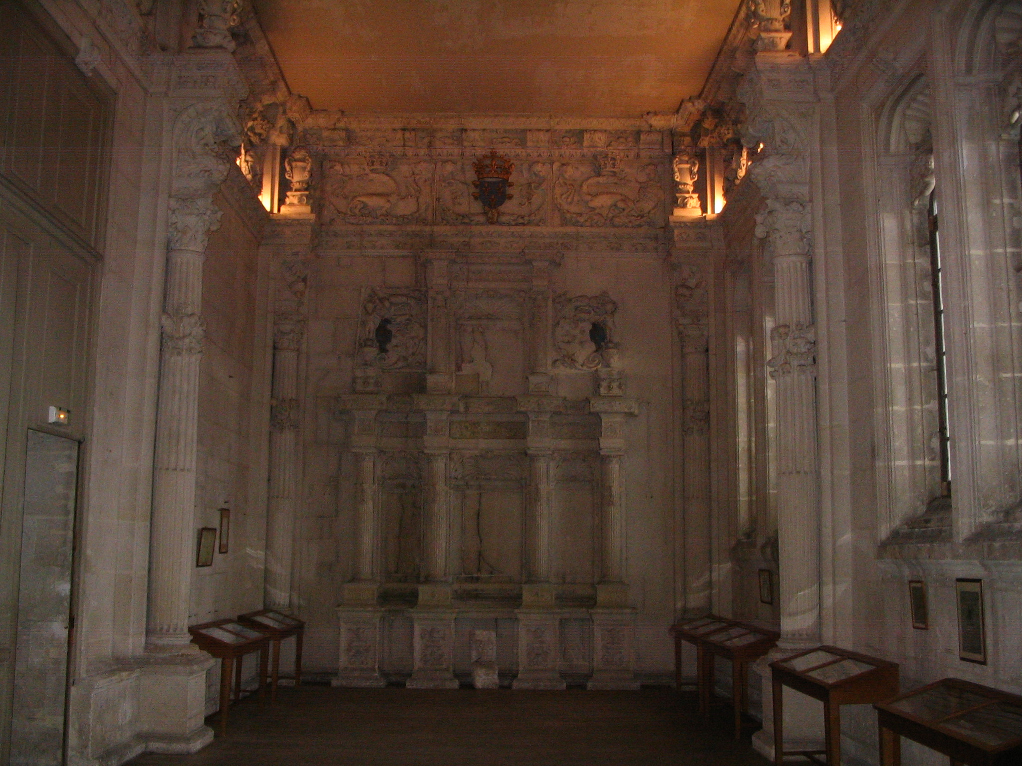 The chapel of the Francis I castle of Villers-Cotterêts, Aisne, France.